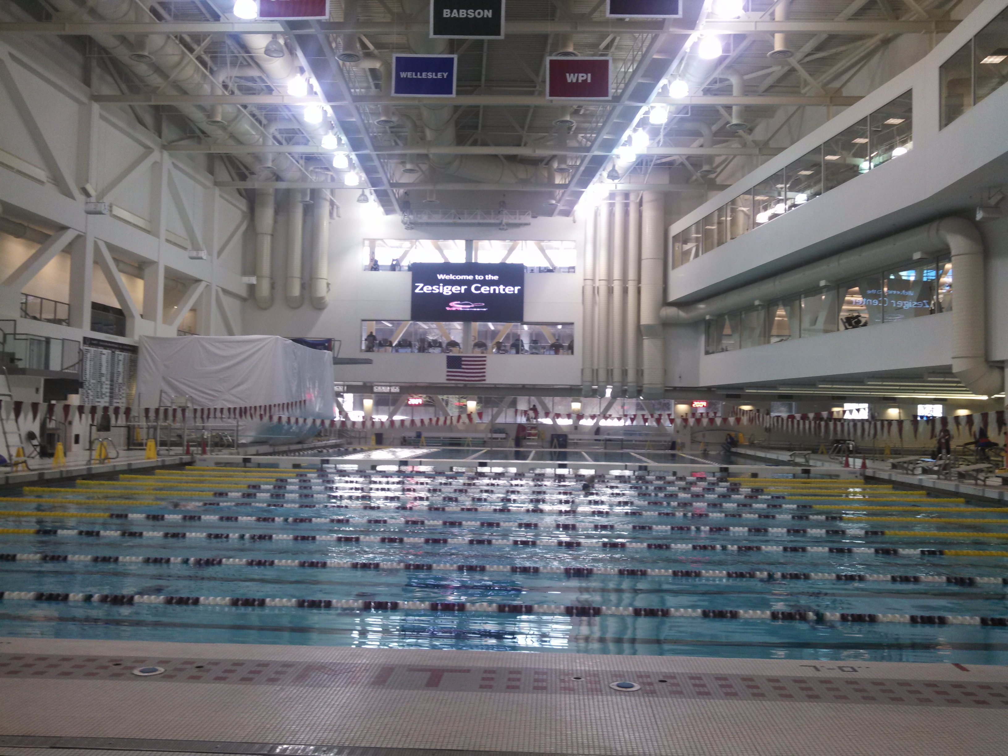 Swimming pool, Zesiger Sports and Fitness Center, MIT, Cambridge Massachusetts - 2014